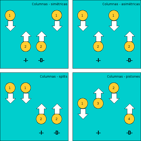 Juggling basic figure: columns. In spanish. "Symmetrical",[1] "asymmetrical",[2] "splits", and "pistons".[3] L and D indicate the left and right hands, "mano izquierda" & "mano derecha", respectively. References ↑ "Four Ball Columns", . ↑ "Synchronous Pistons", . ↑ "Pistons", .